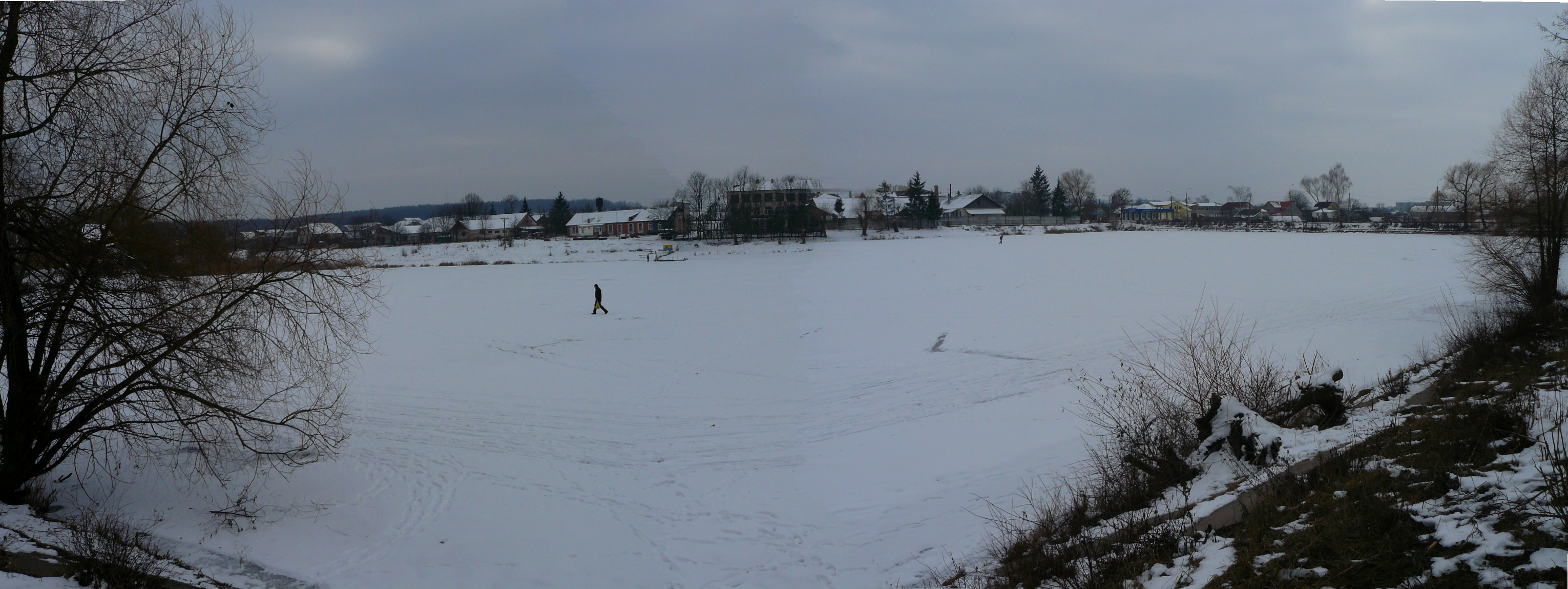 Панорама ставку "Левада"